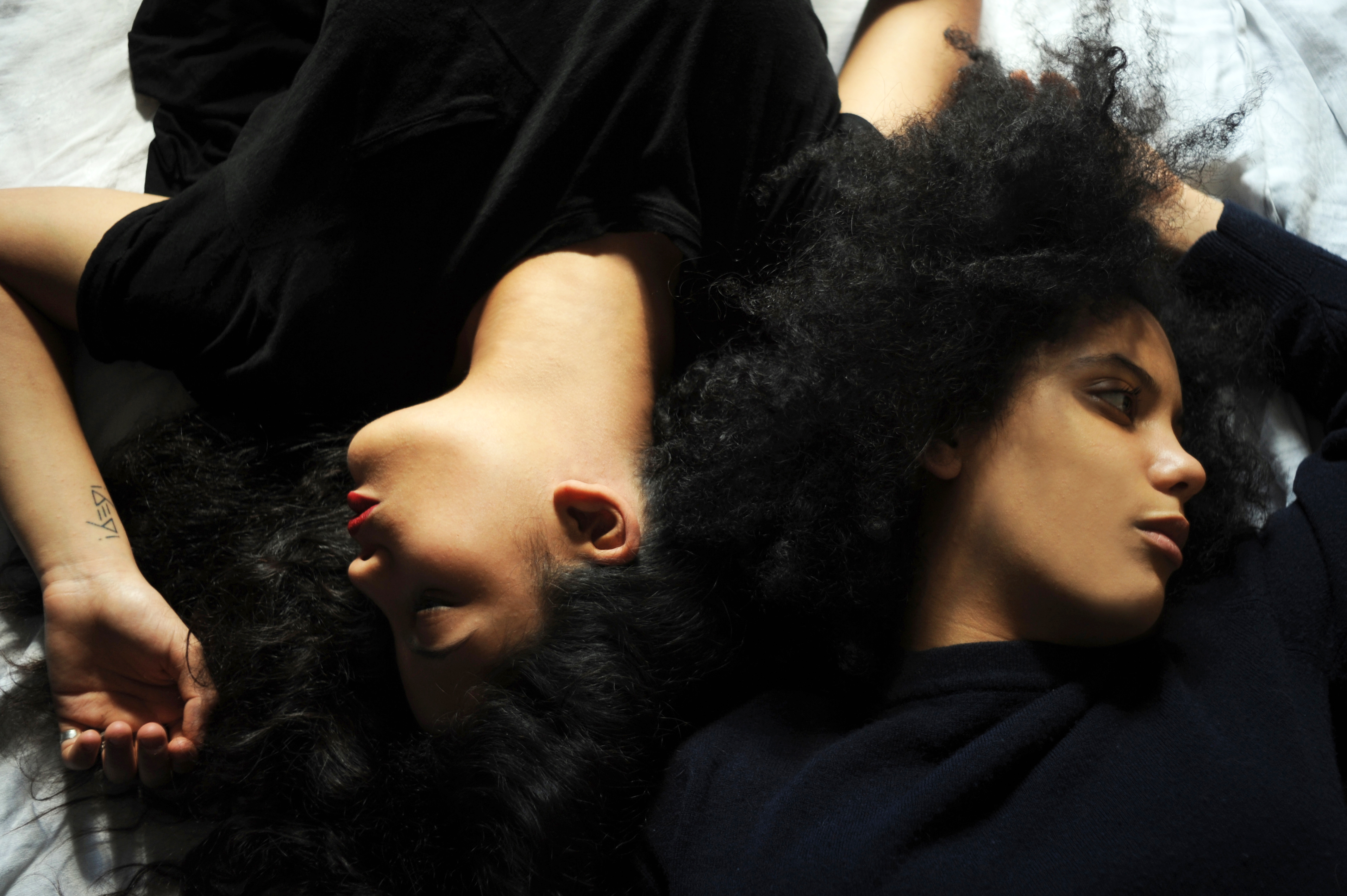 French-Cuban musical duo Ibeyi